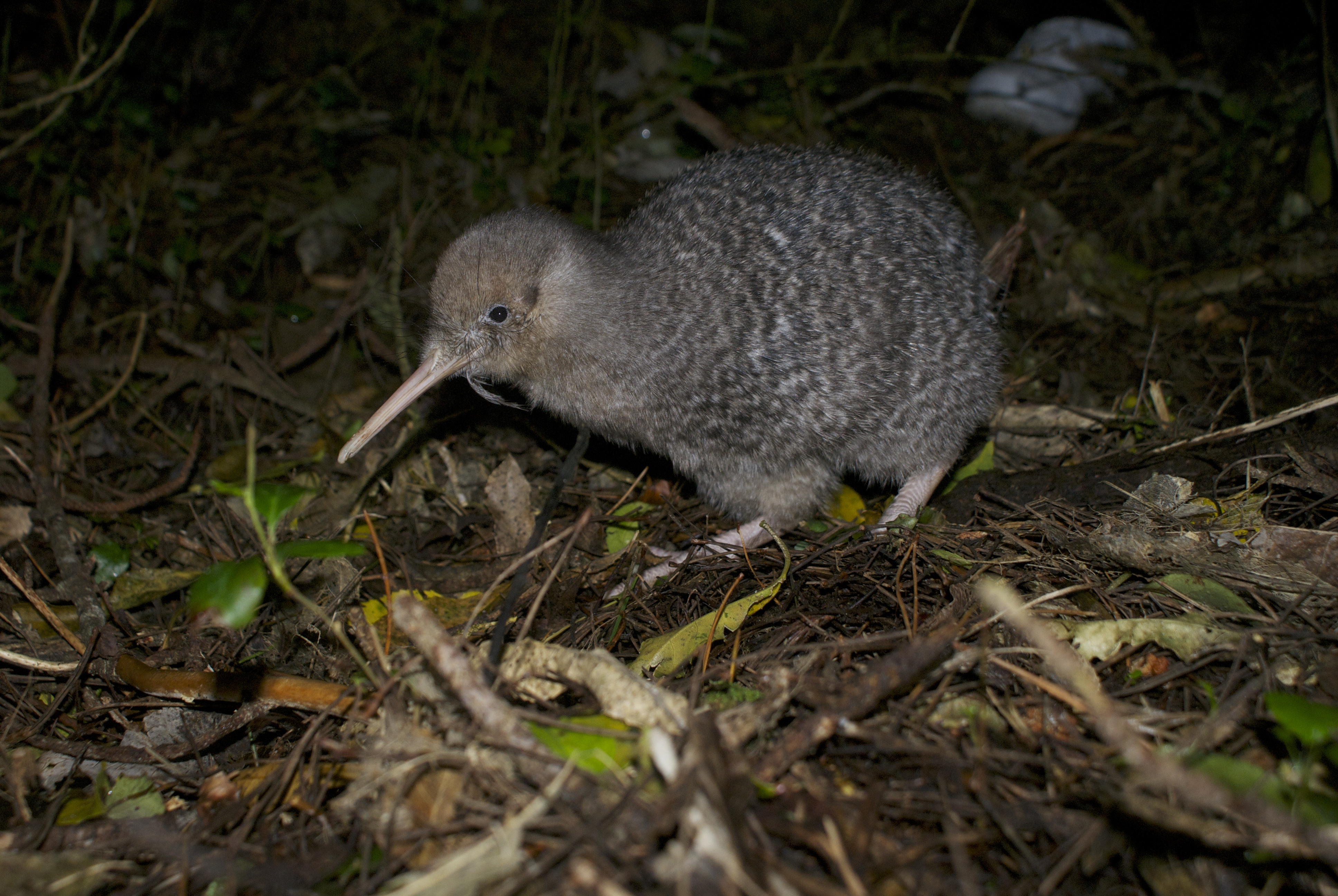 Juvenile little-spotted kiwi (Apteryx owenii) at Zealandia Ecosanctuary